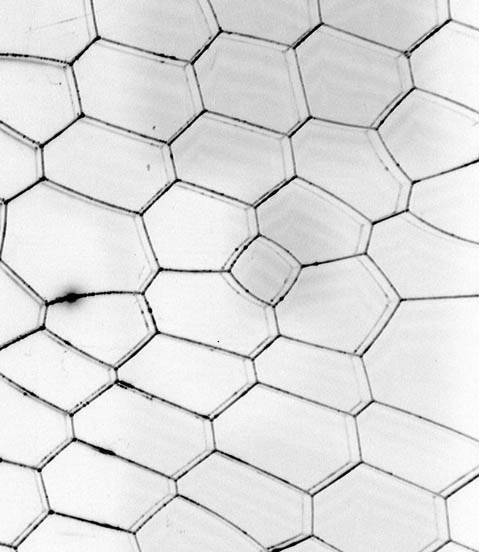 2-dimensional foam (bubbles lie in one layer; colors inverted)